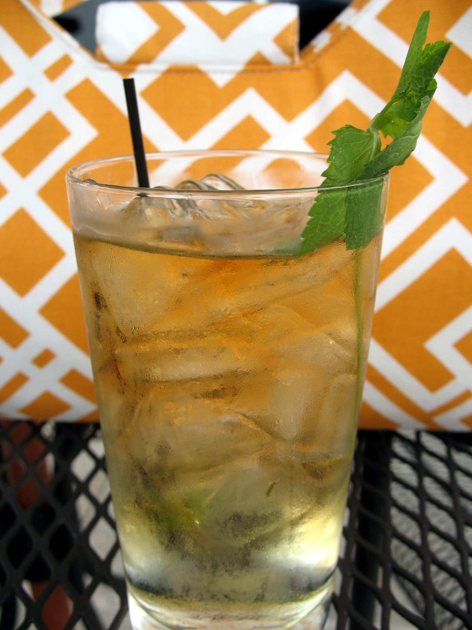 And the purse that Karen gave me for my birthday in the background